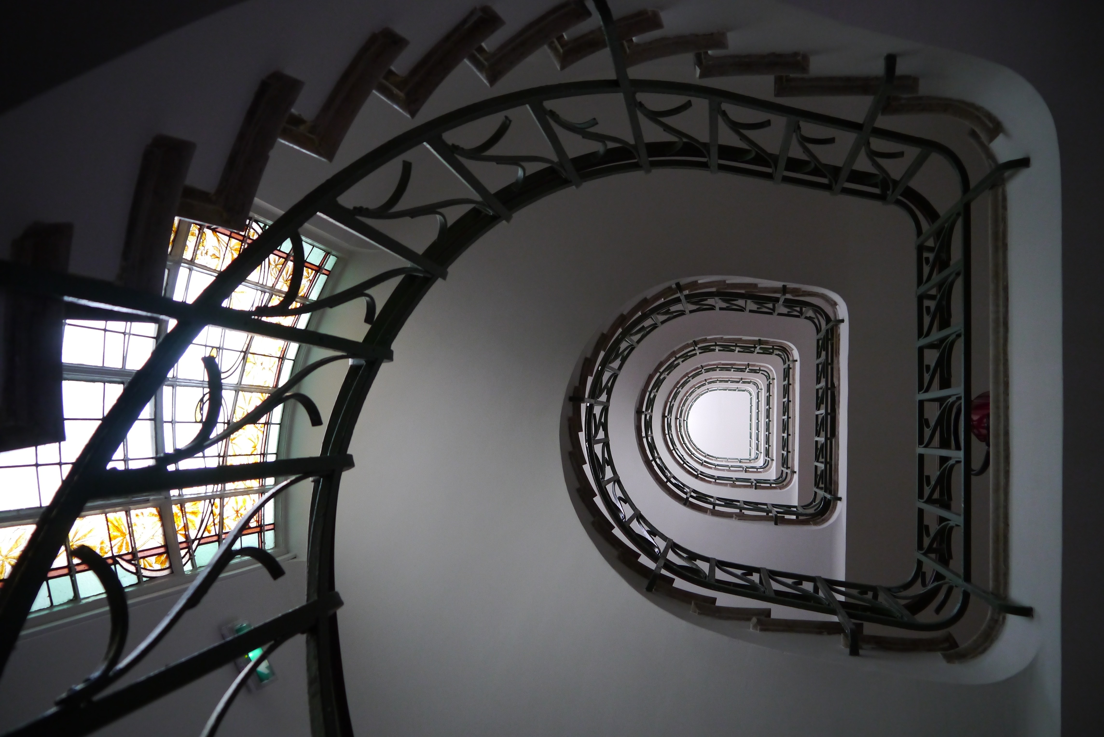 6 rue de Hanovre, Paris, France. .